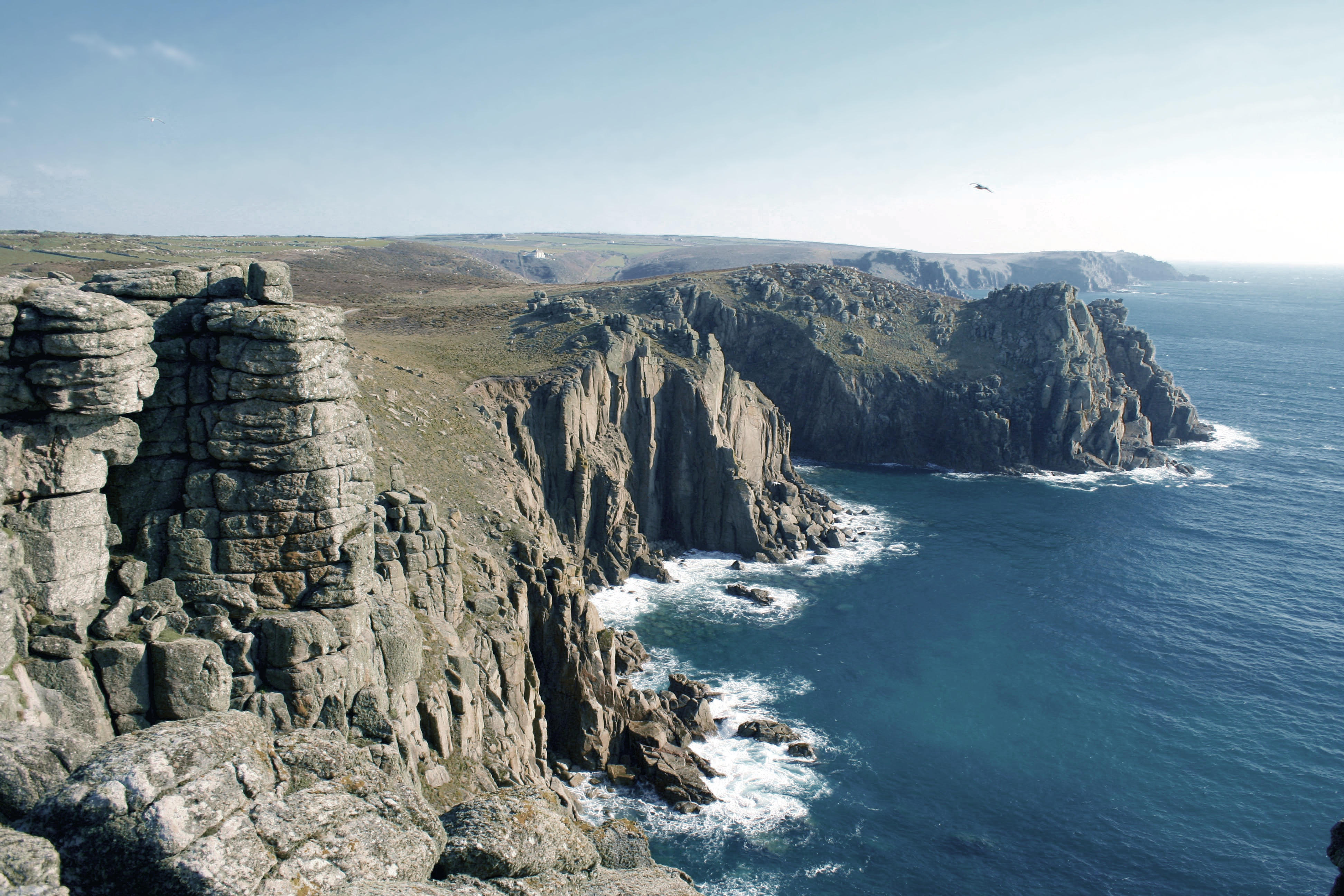 Land's End, Cornwall, England - Sunday February 17th 2008.